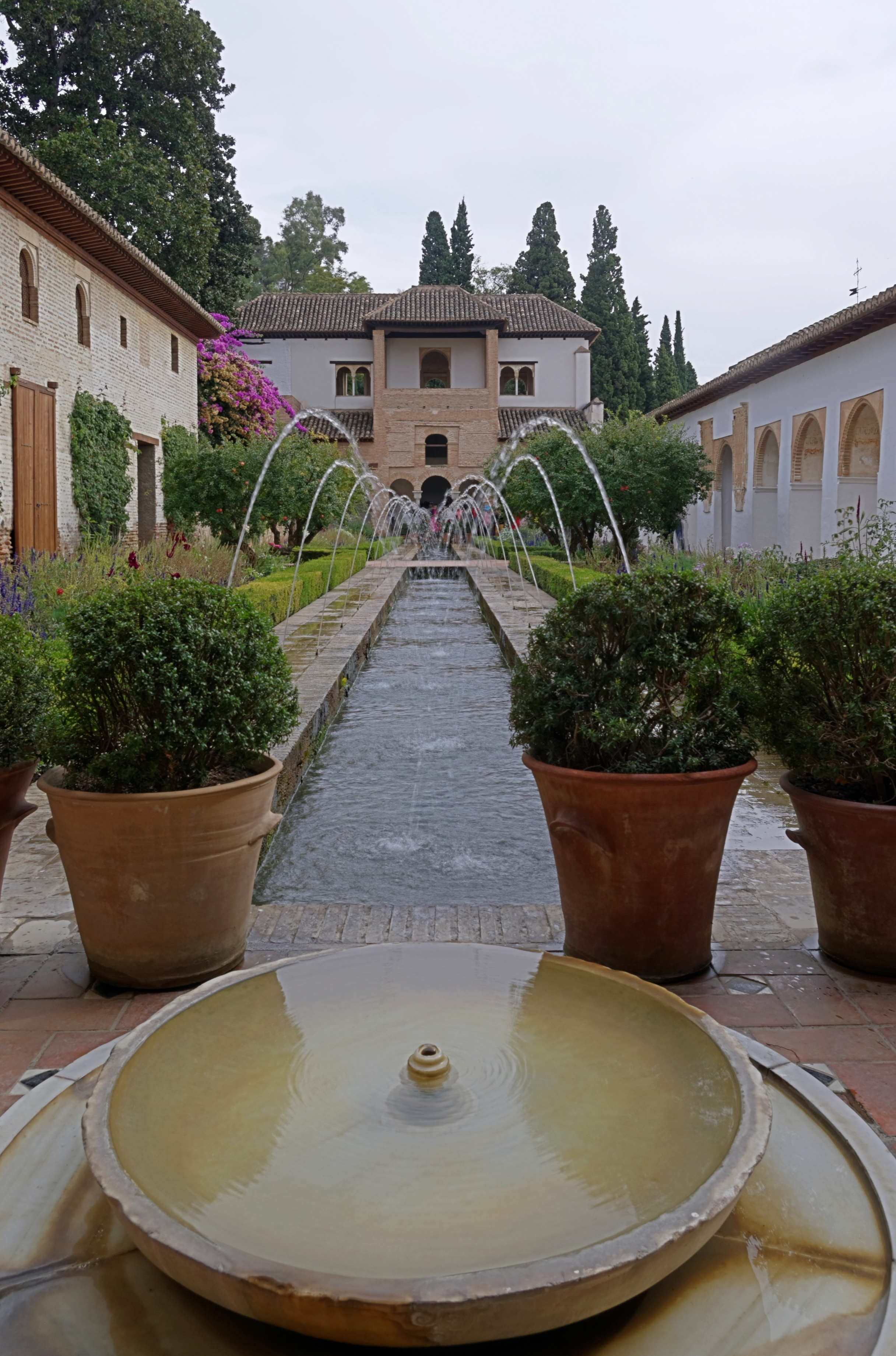 Spain, Granada, Generalife